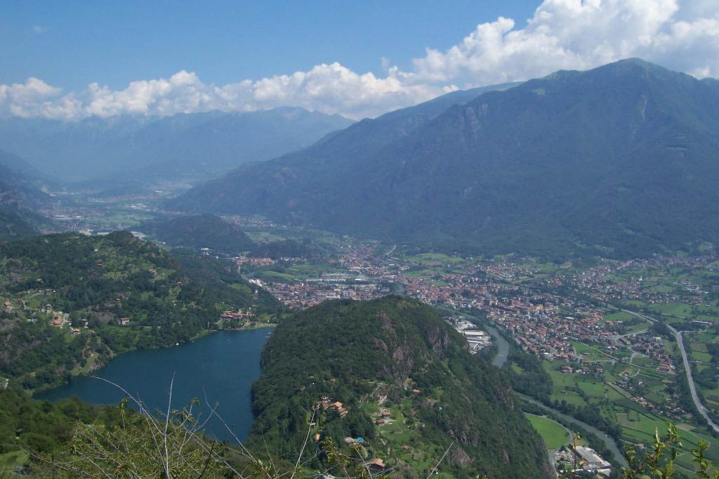 Darfo, Val Camonica